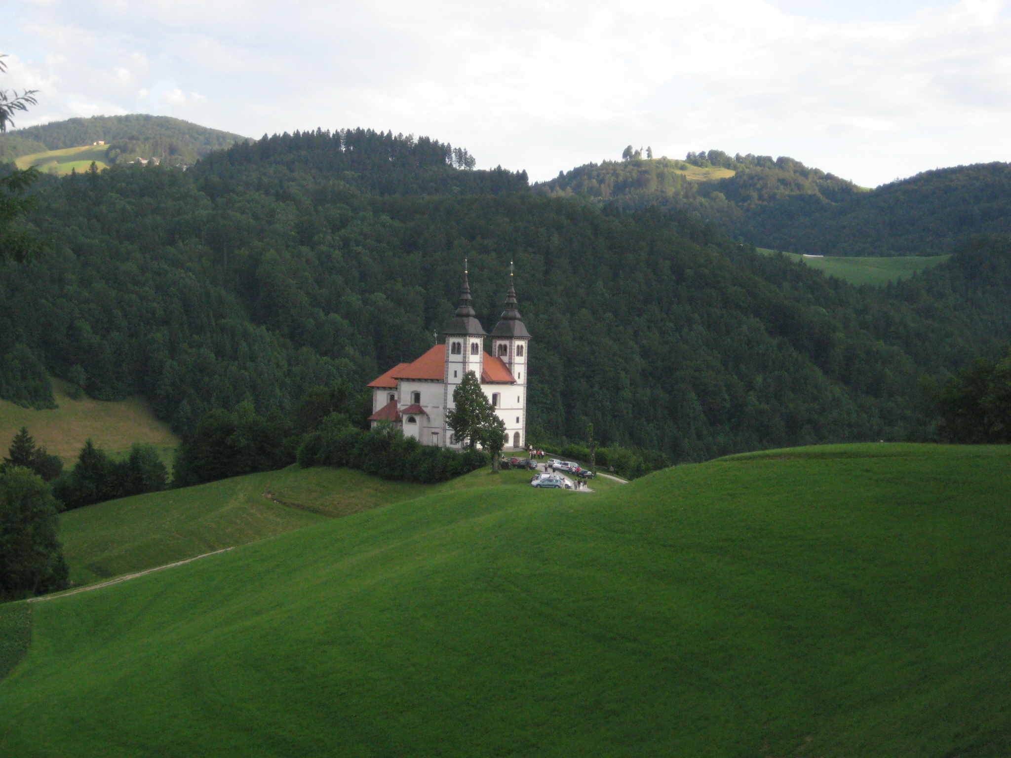 St.Volbenk church, Poljanska dolina, Slovenia